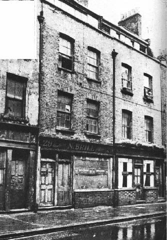 Hanbury Street as it was at the time of Annie Chapman's murder. In the centre of the photograph is 29 Hanbury Street, and the door through which entry was gained into the backyard where her body was found